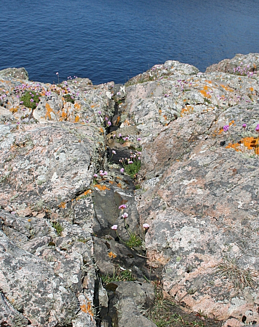 A Scourie Dyke The line of dark rock cutting through the paler gneiss is a Scourie dyke. Scourie dykes were intruded between 2400 and 2200 million years ago into the Lewisian gneiss, which is at least 2700 million years old. This is a very narrow dyke, but they can be up to tens of metres in width. Notice how sharp the contact between the dyke and the country rock is.